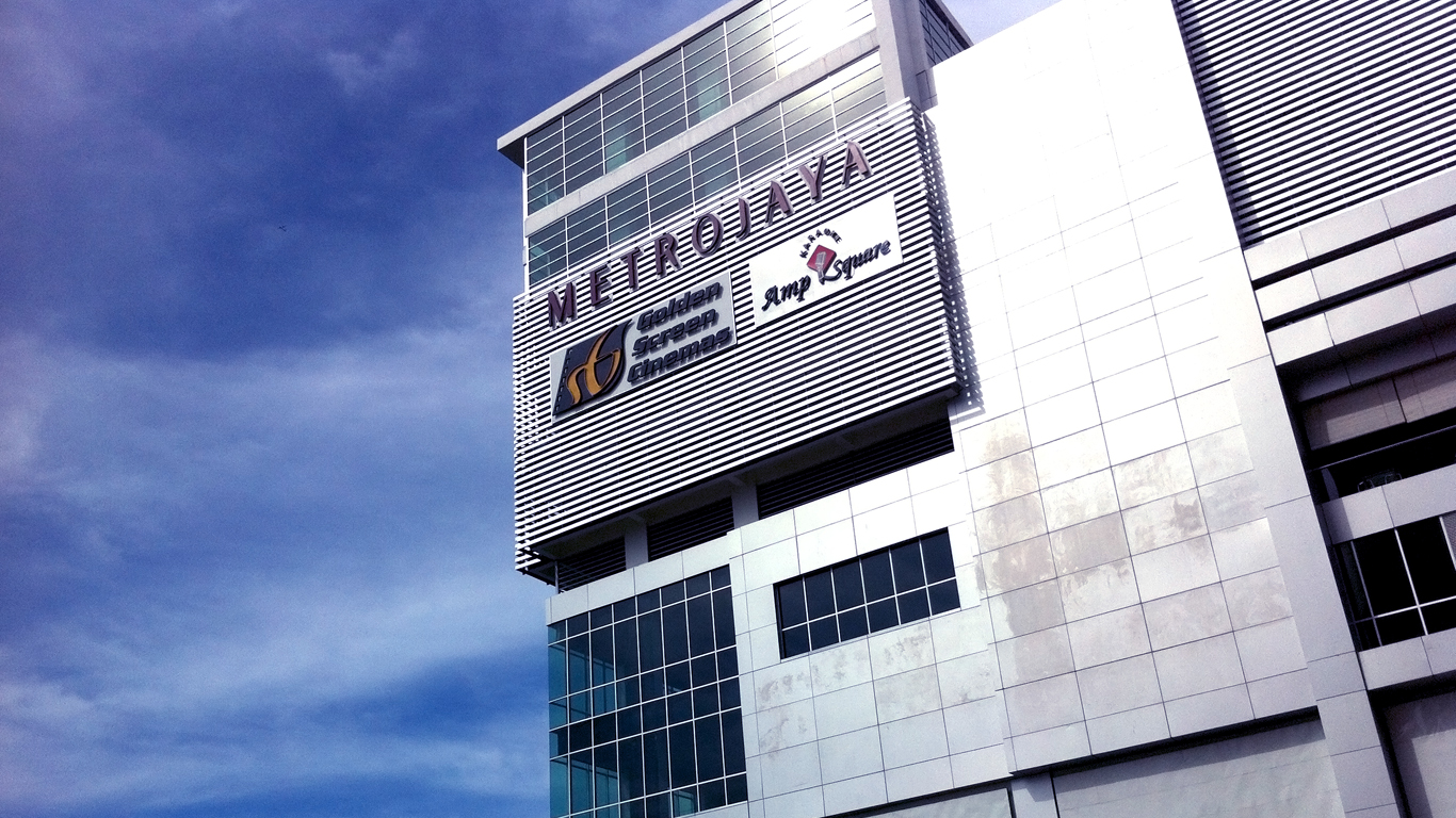 Suria Sabah, Kota Kinabalu